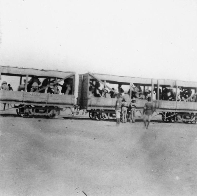 General Kitchener and the Anglo-egyptian Nile Campaign, 1898 Men of the 21st Lancers entrain at Wadi Halfa in preparation for the journey south to join Kitchener's forces.